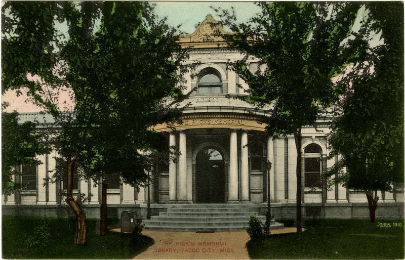 Rick's Memorial Library in Yazoo City, Mississippi